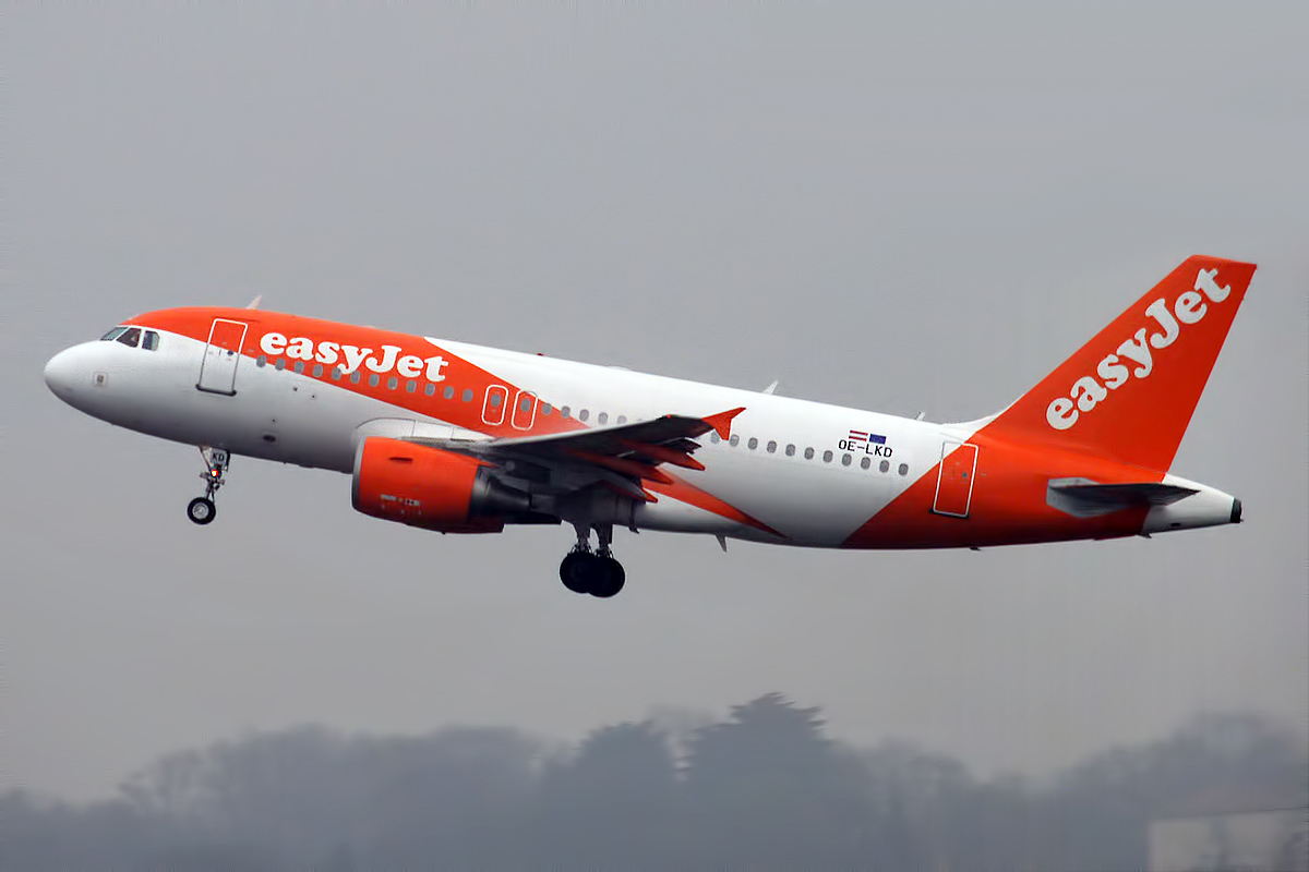 EasyJet Europe, OE-LKD, Airbus A319-111